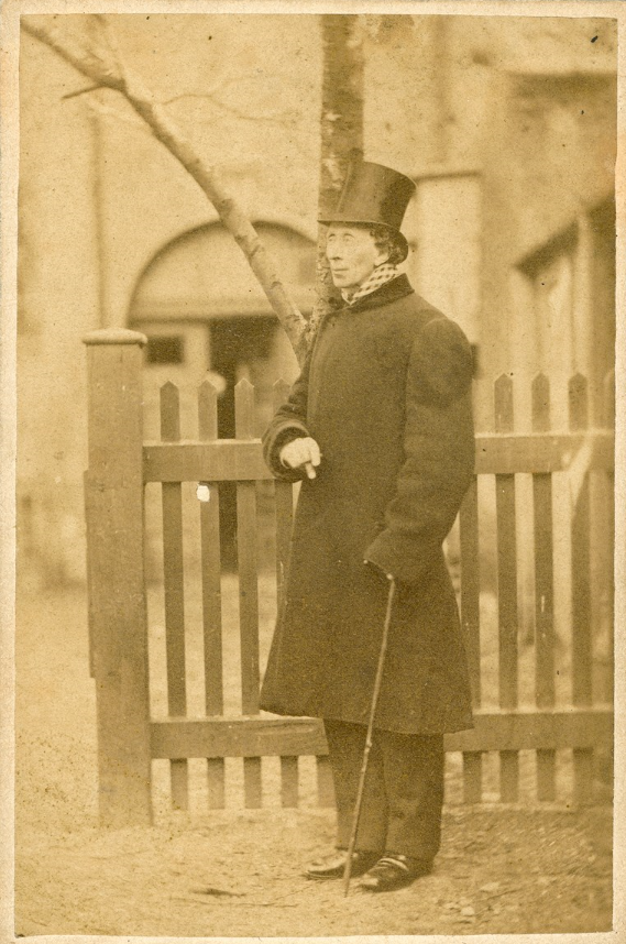 Hans Christian Andersen photographed in the backyard of Amaliegade 9 (Collin House= in Copenhagen, Denmark